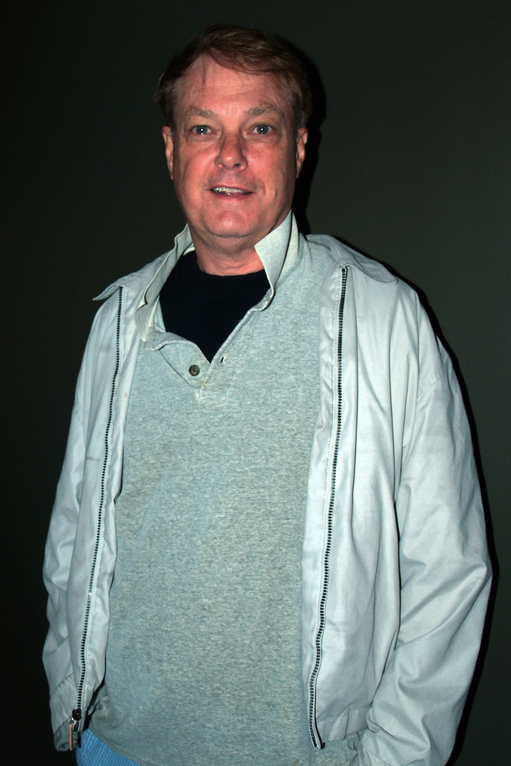 American animator Bill Plympton during a September 16, 2013 history of computer animation lecture and book signing featuring animator Tom Sito at the SVA Theatre, which is part of Sito's alma mater, Manhattan's School of Visual Arts. This photo was created by Luigi Novi. It is not in the public domain, and use of this file outside of the licensing terms is a copyright violation.